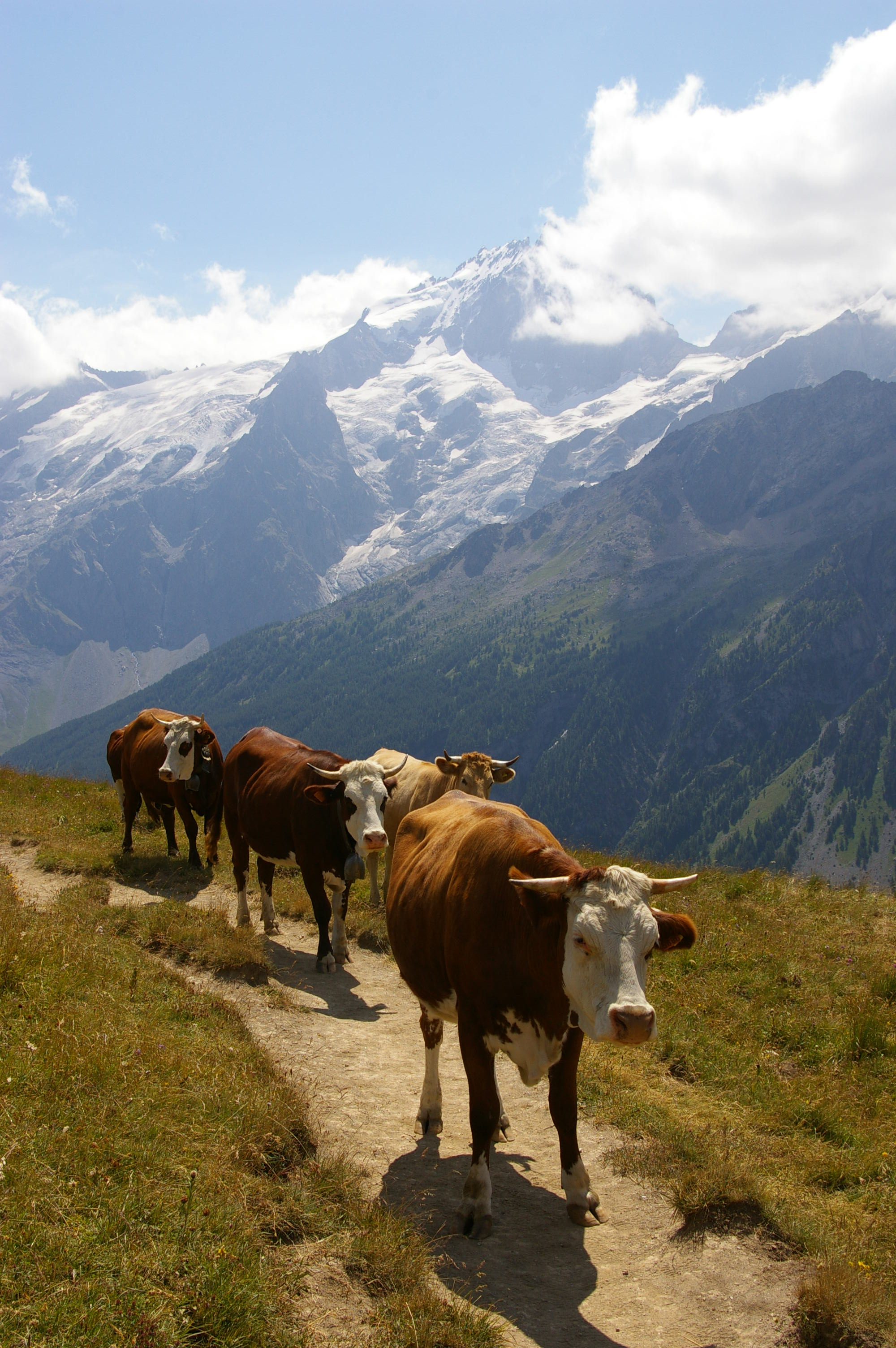 On the GR 54 hiking trail near Le Chazelet, NW of La Grave, dept. hautes-Alpes